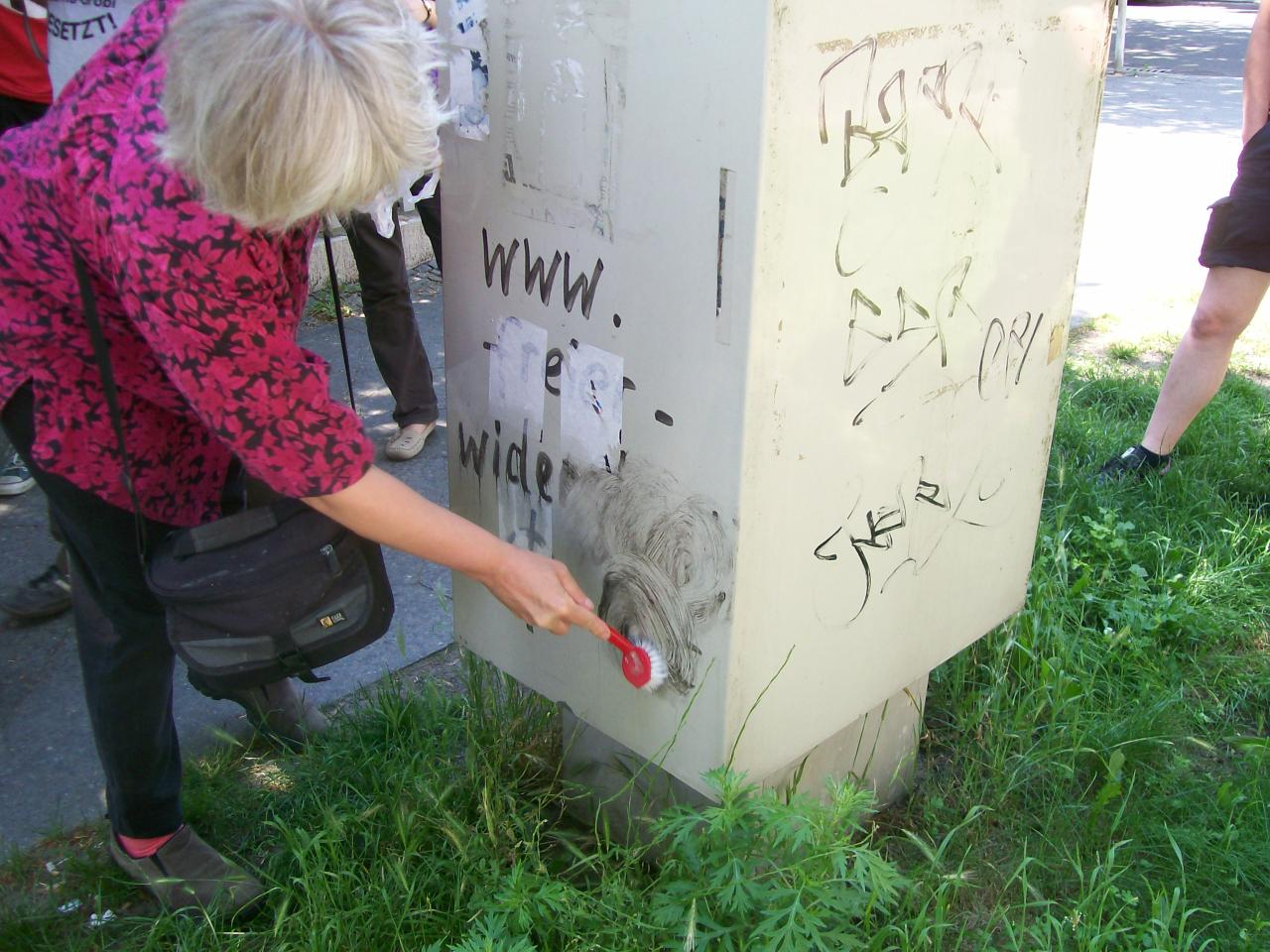 German antifascist activist Irmela Mensah-Schramm, removing neonazi propaganda in Berlin-Frohnau